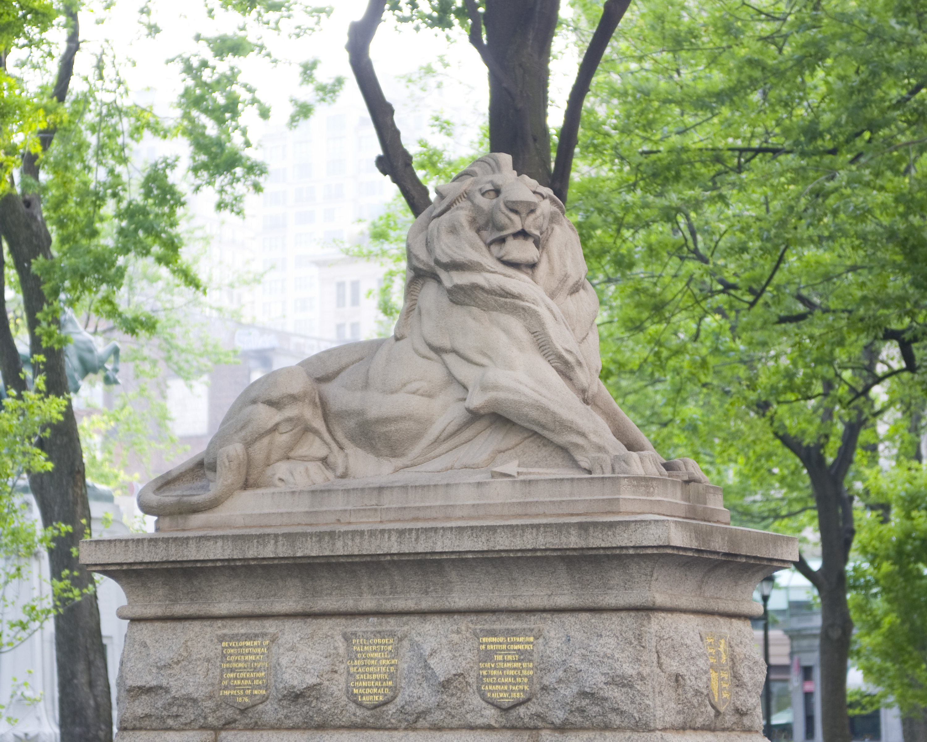 The G.W. Hill Lion de Belfort (by Bartholdi) replica located in Dorchester square in Montréal.